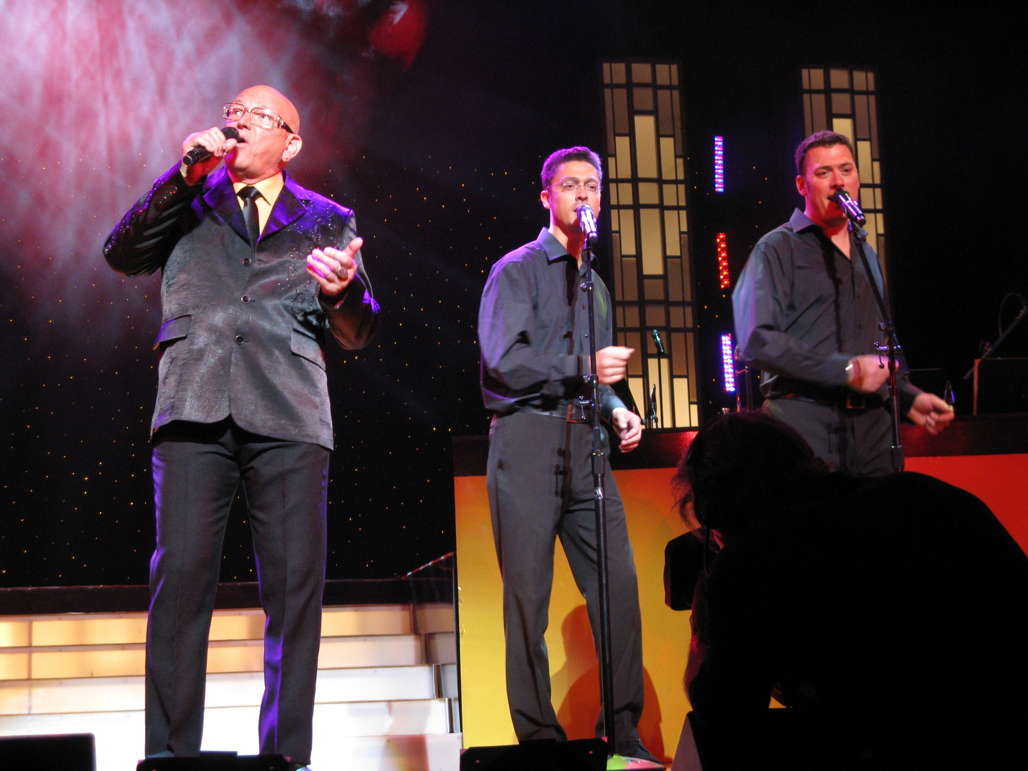 John Gummoe and Carrasco brothers from the Spanish doo wop group The Earth Angels. The picture was taken during their participation in the festival of this genre at the Benedum Center for the performing arts in Pittsburgh Pennsylvania.